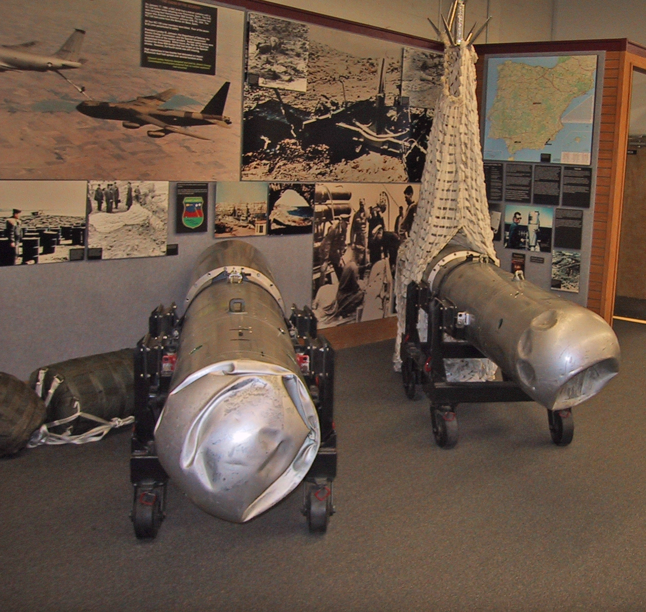 The casings of two B28 nuclear bombs involved in the Palomares incident, on display at the National Atomic Museum, in Albuquerque, NM.